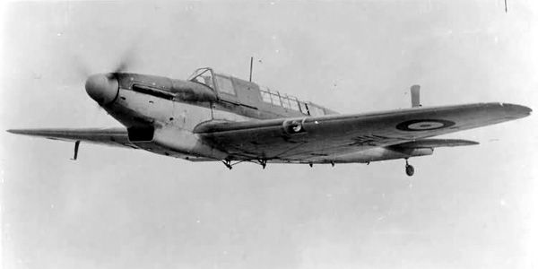 Fairey Fulmar Mk. I carrier-borne fighter of Royal Navy (early series) in 1940